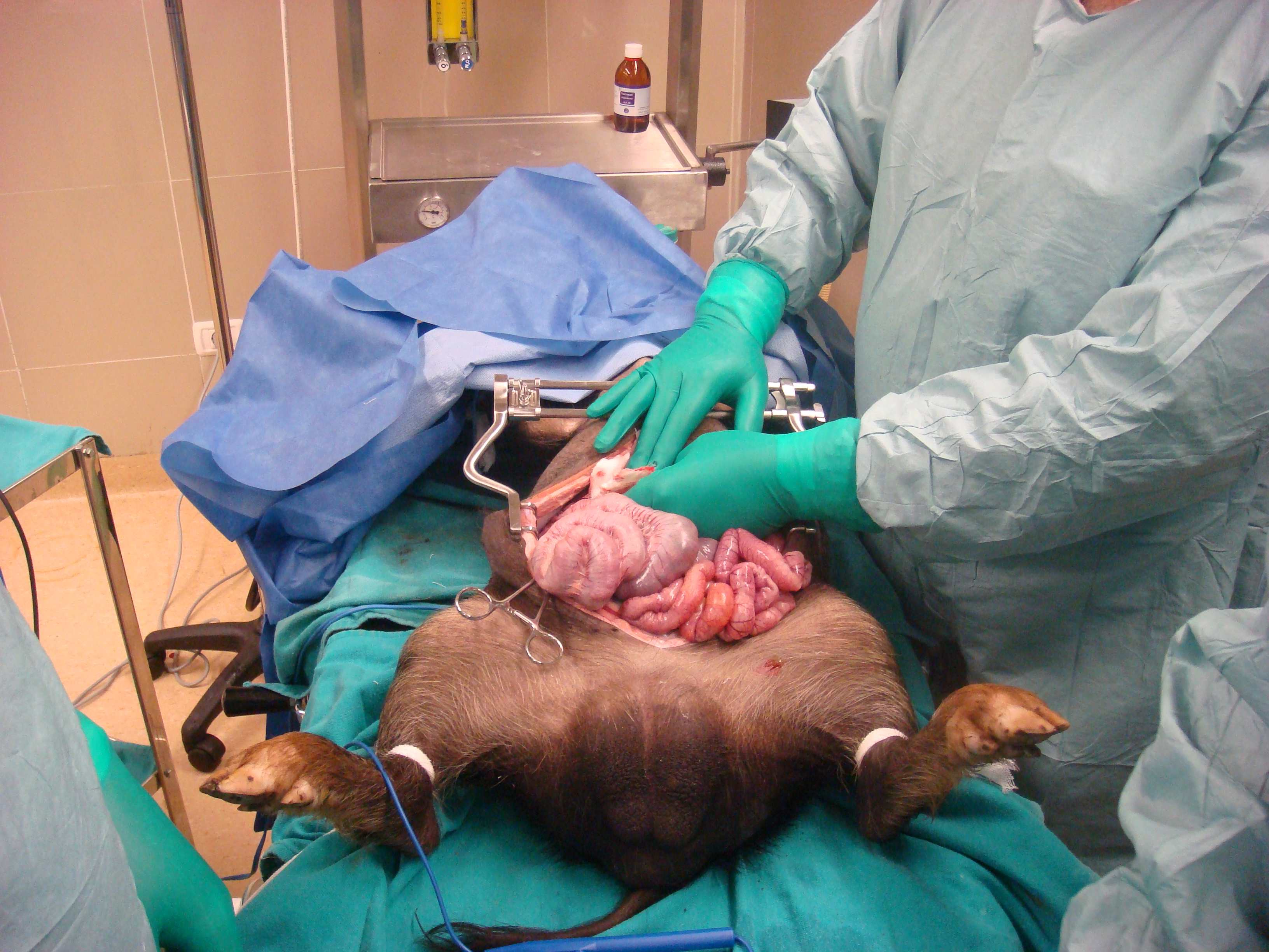 Surgical training on live animal (pig).